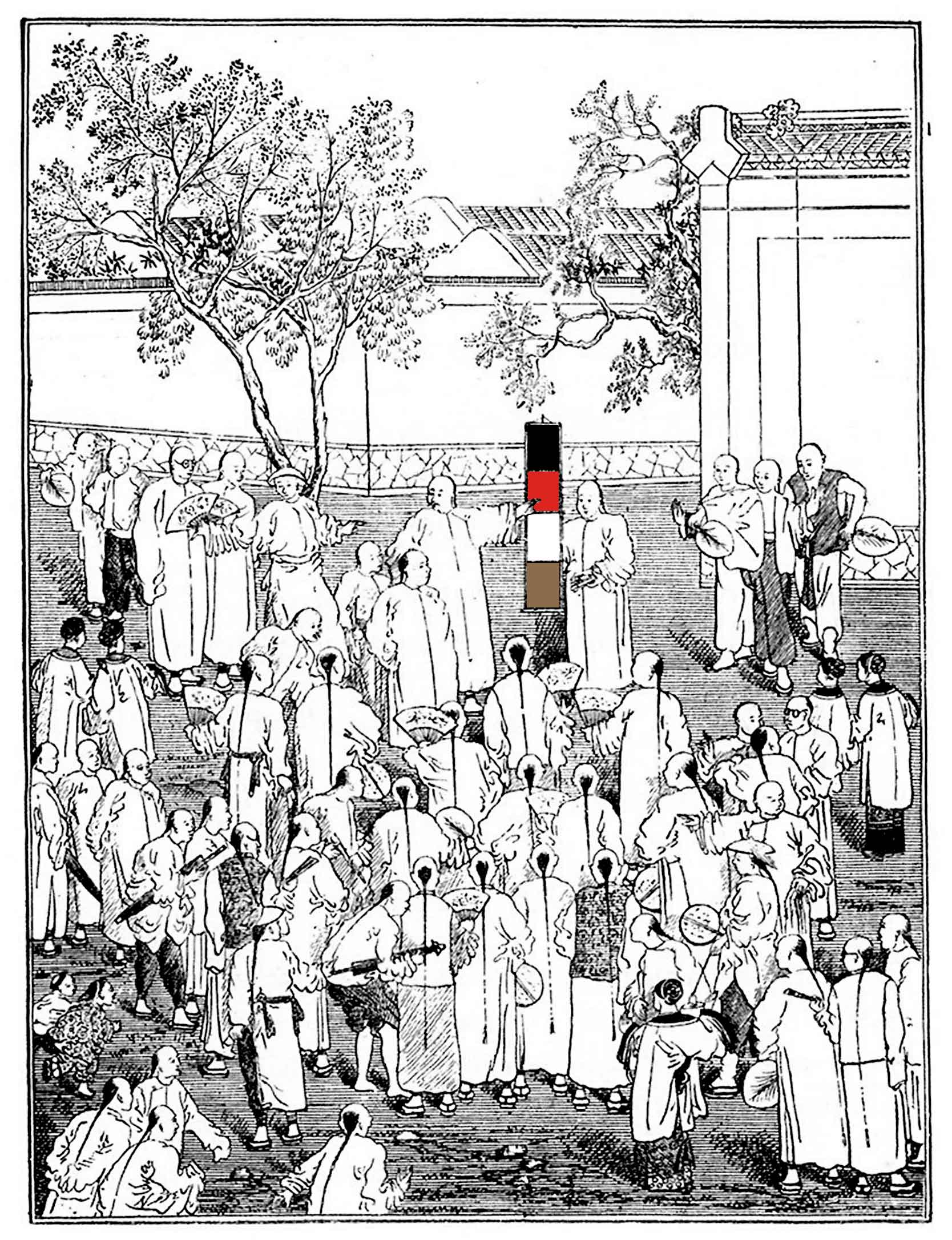 From China's Millions; China Inland Mission; London; January 1892 (colors added by Brian York in photoshop for emphasis)